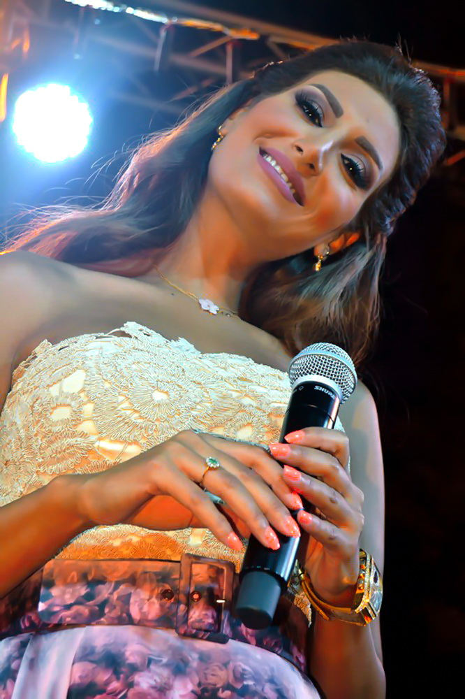 Rouwaida Attieh - 2015 - Lebanon - Beirut